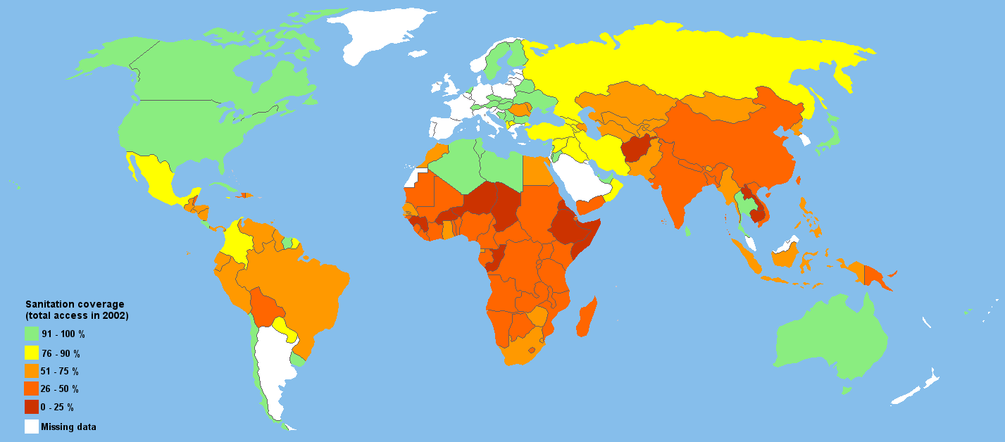 Sanitation coverage